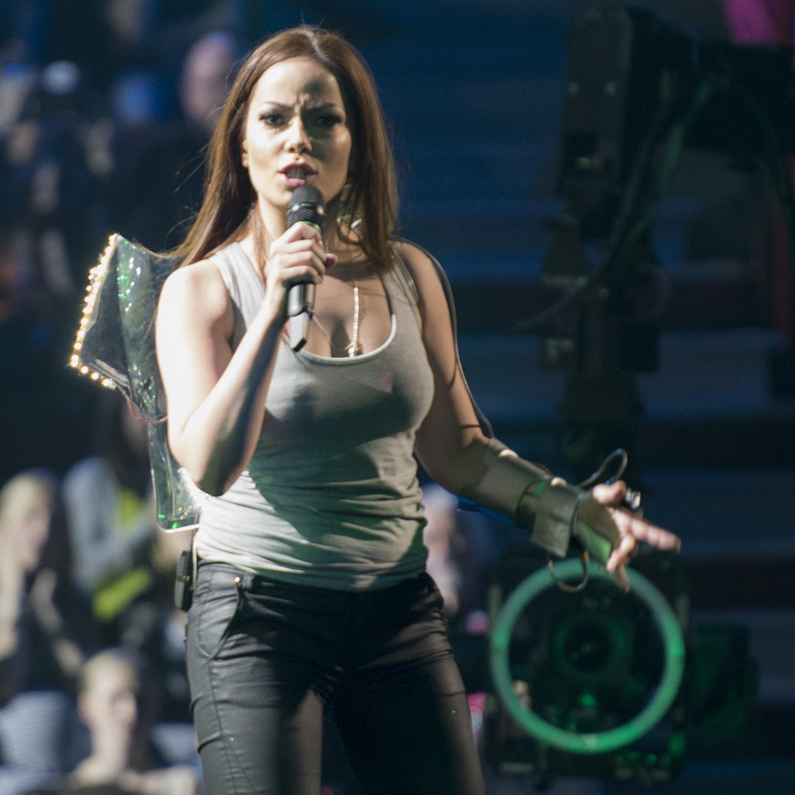 Who See and Nina Žižić representing Montenegro with the song "Igranka" during the third dress rehearsal of the first semi final of the Eurovision Song Contest 2013 Malmö. (Help translate this text)